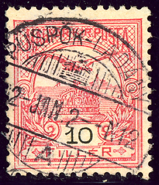 Kingdom of Hungary 10 filler stamp, issue 1900, cancelled Püspök-ladány (Eastern Hungary) in 1902